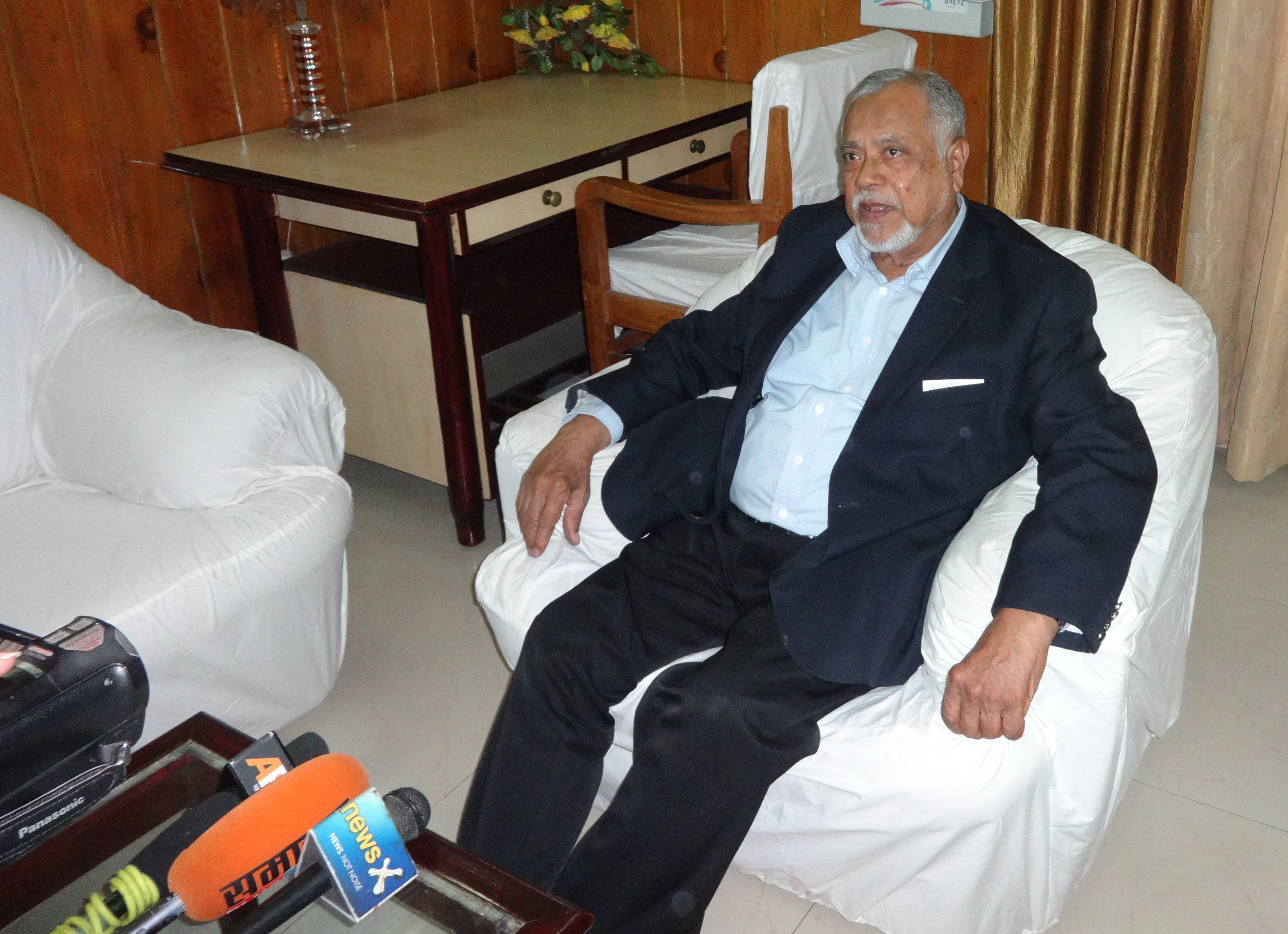 Abdool Raouf Bundhan